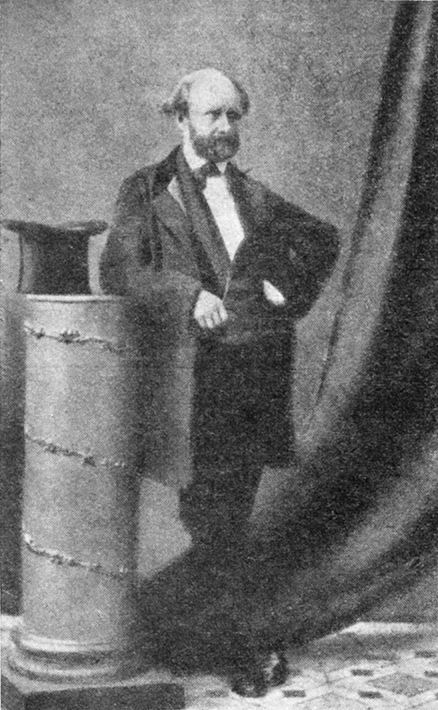 Friedrich Hebbel (1813-1863) was a German poet and dramatist.